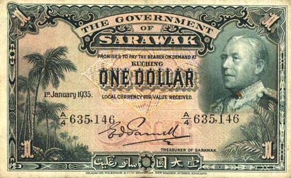 1 dollar